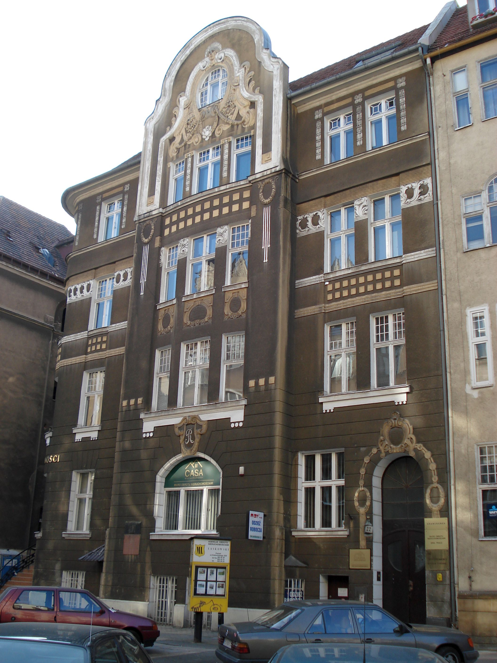 22 Chełmońskiego Street in Poznań. The self-designed house of architect Karl Roskam, 1906.